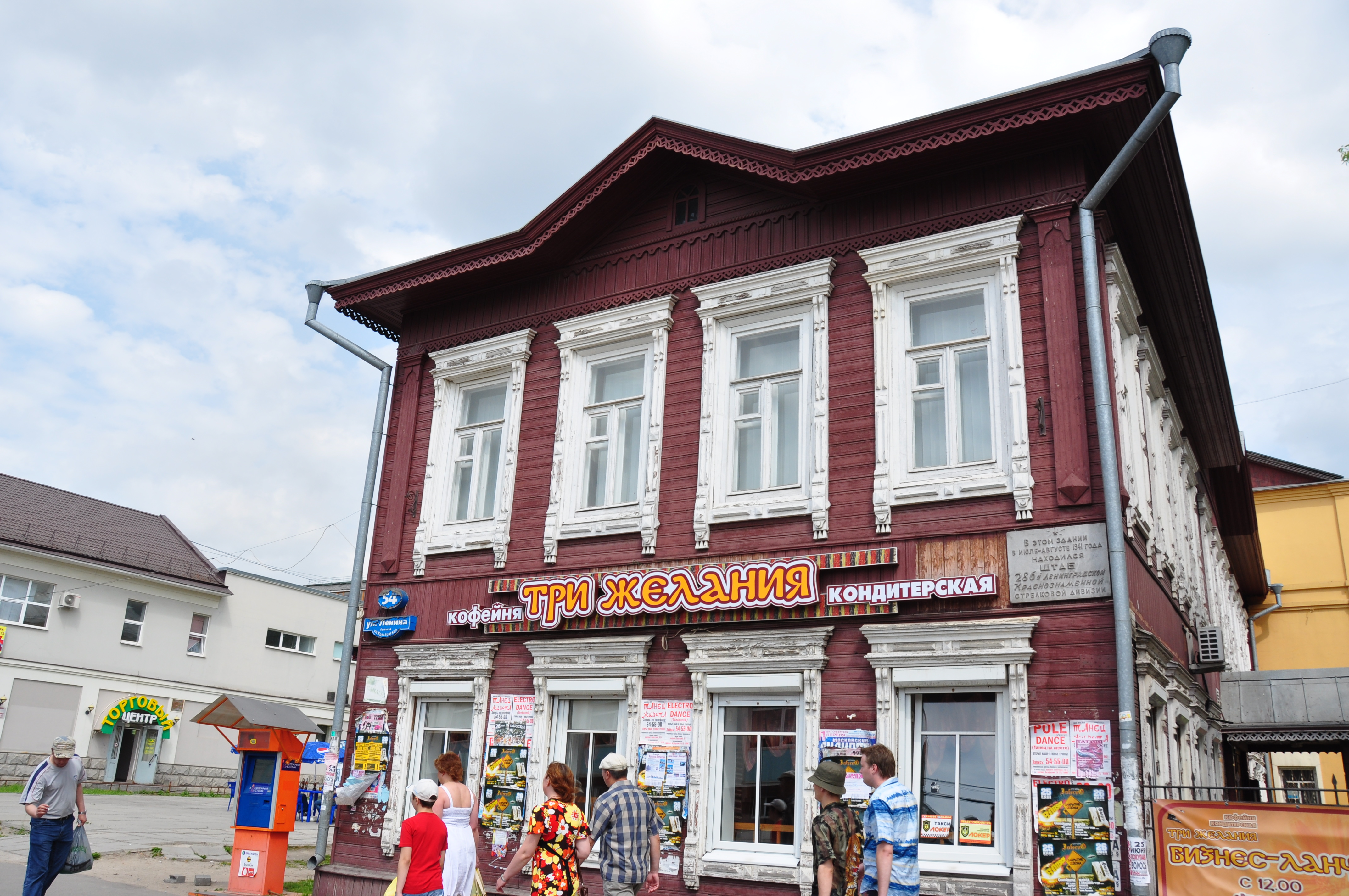 Headquarters of 286 Red Army Division in Cherepovets in Jul-Aug 1941